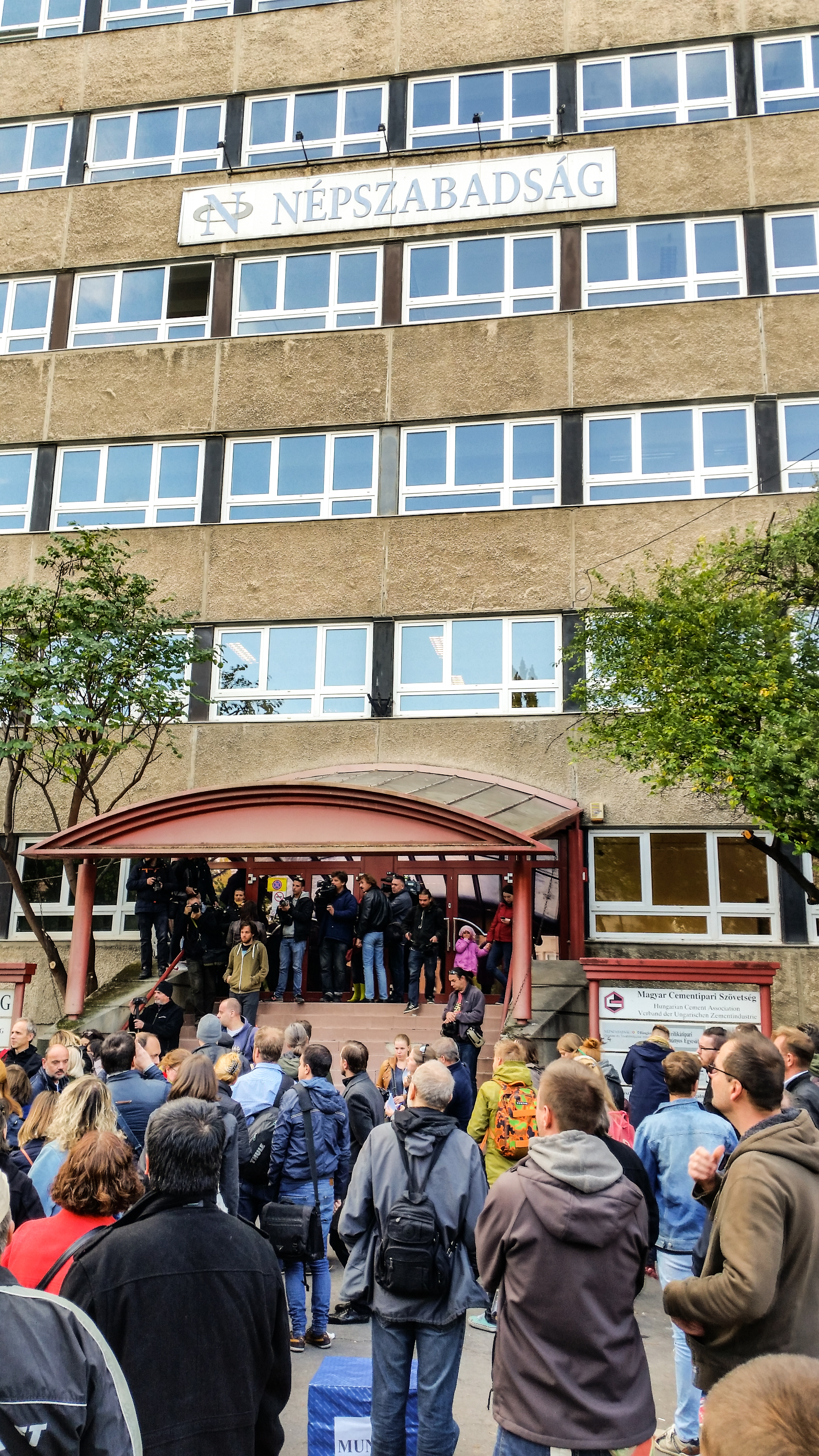 Lockout of the journalists of Népszabadság